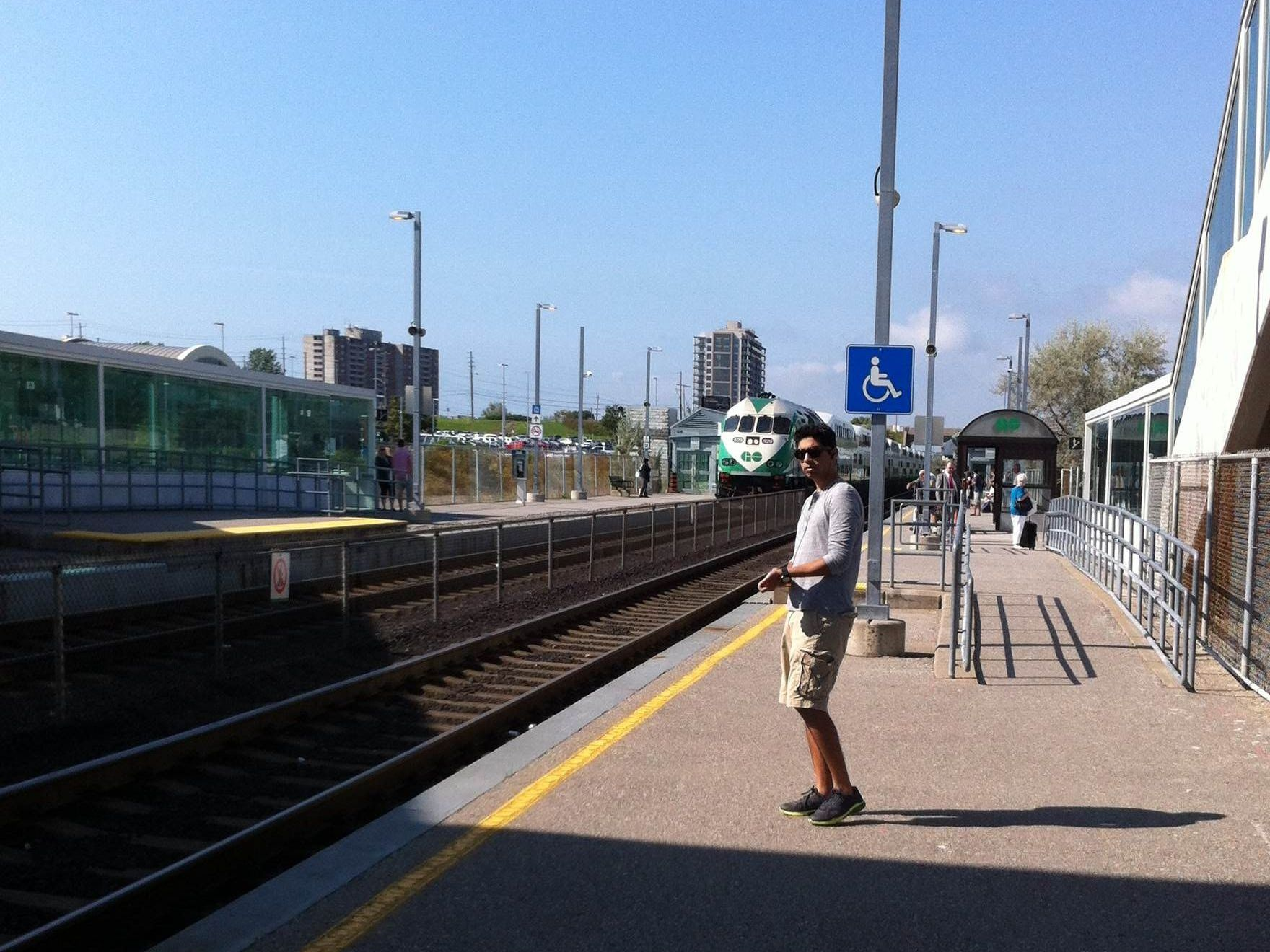 Pickering GO Station